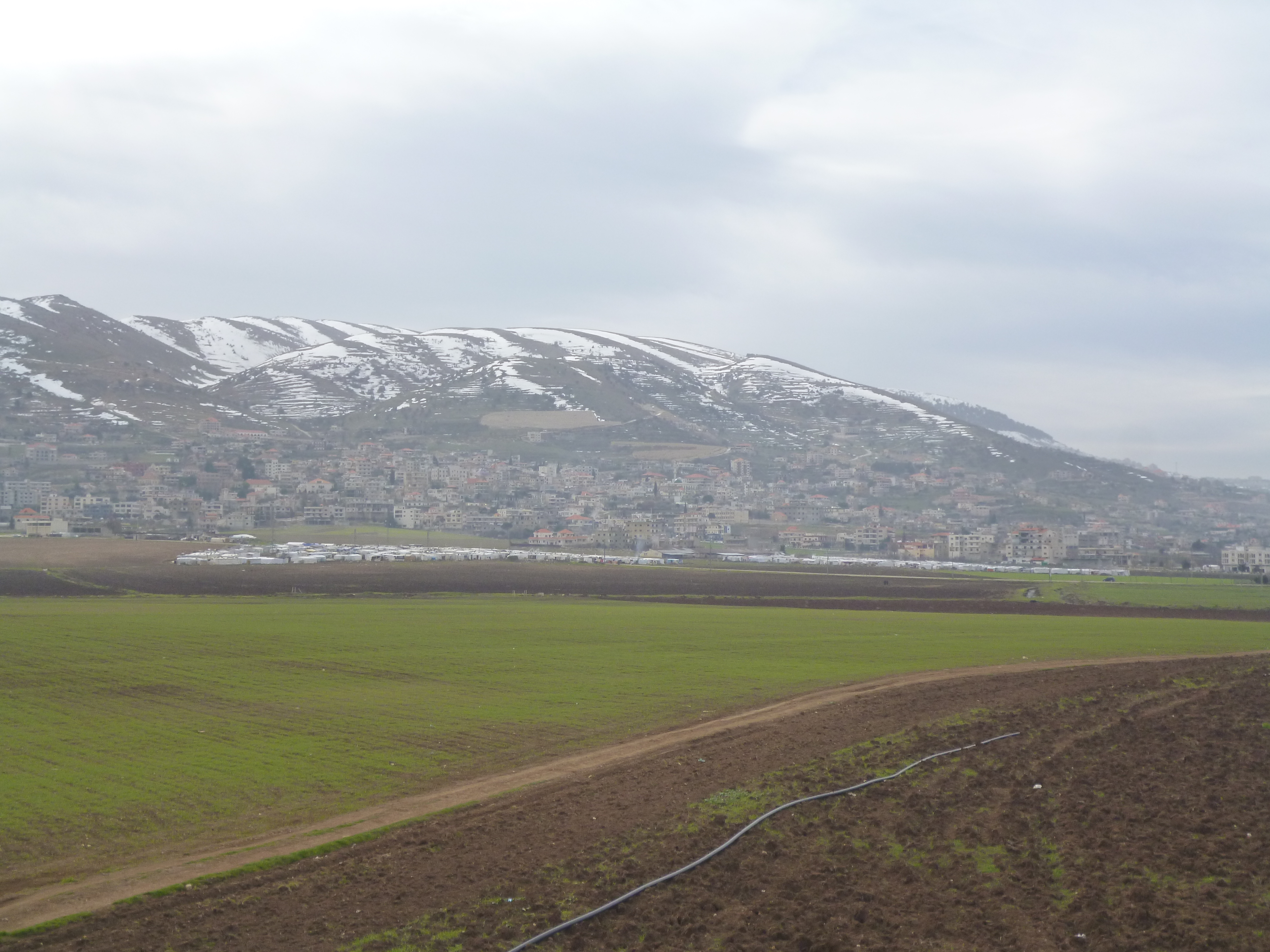 Joub Jeneen, Beqaa Valley, January 2015